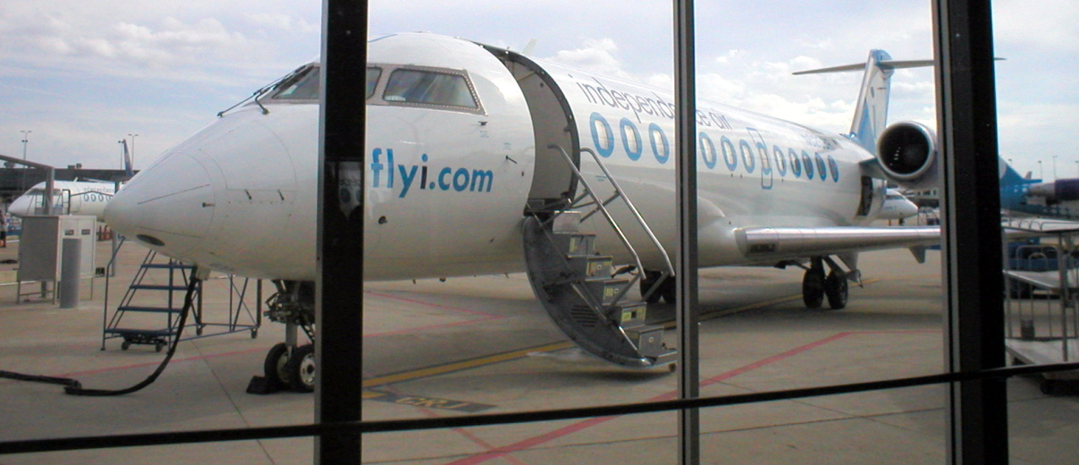 A Canadair CRJ regional jet in the now-defunct Independence Air livery, seen through terminal windows at Dulles Airport (IAD).